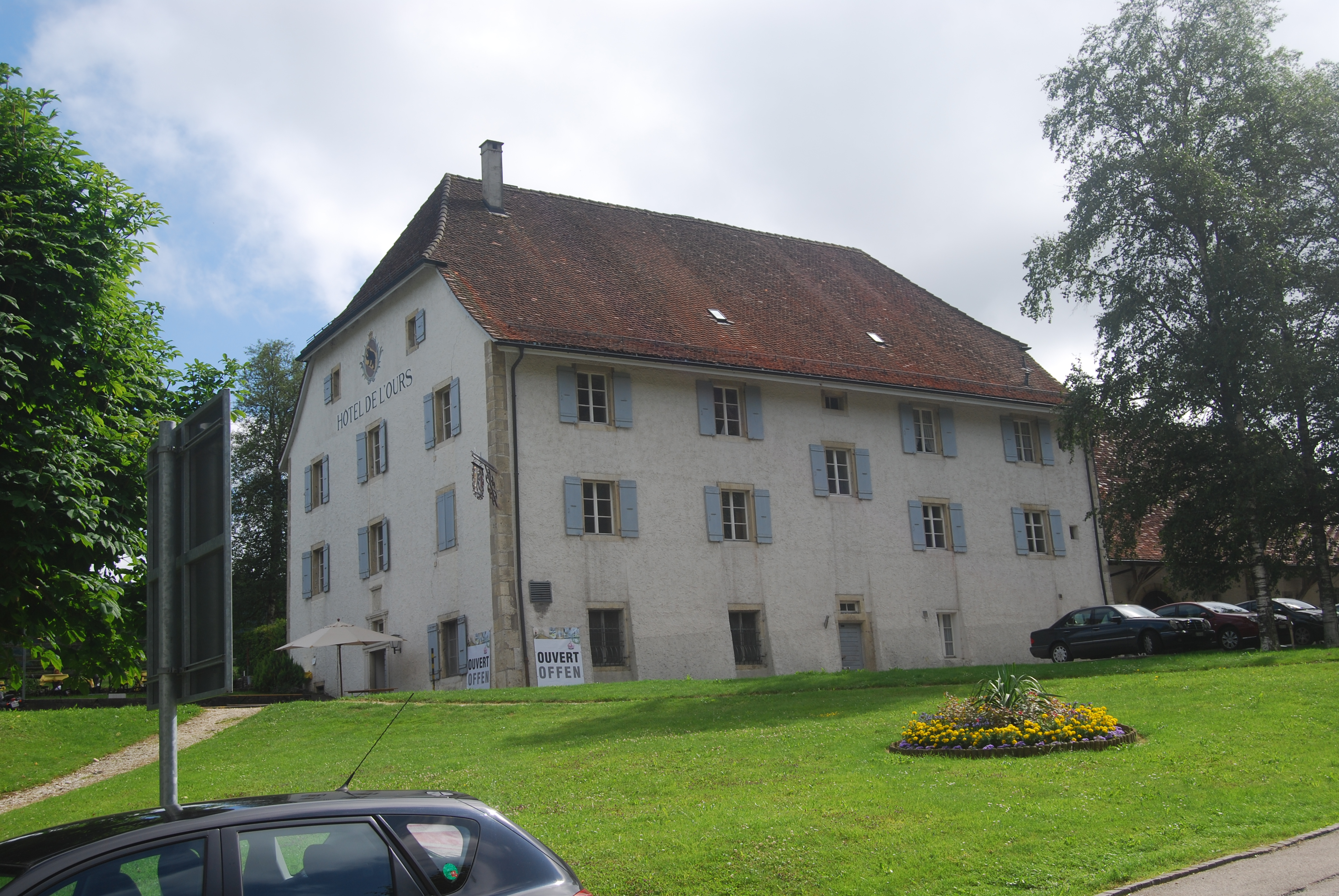 Hotel de l'Ours at Bellelay, municipality of Saicourt, canton of Bern, SwitzerlandEsperanto: Hotelo de l'Ours en Bellelay, komunumo Saicourt, Kantono Berno, Svislando